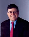 Kenneth M. Duberstein (born April 21, 1944) served as U.S. President Ronald Reagan's White House Chief of Staff from 1988 to 1989.